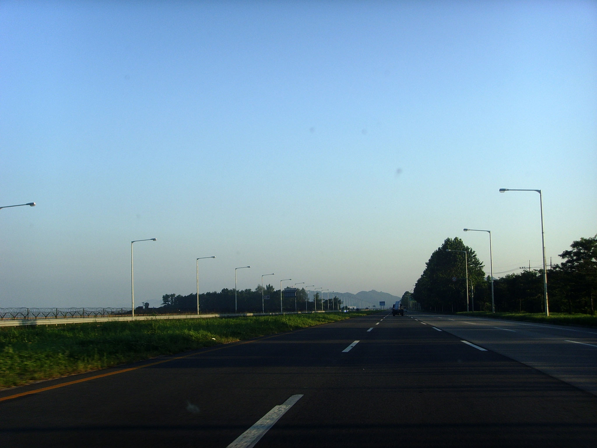 Jayuro Pyongyang Direction